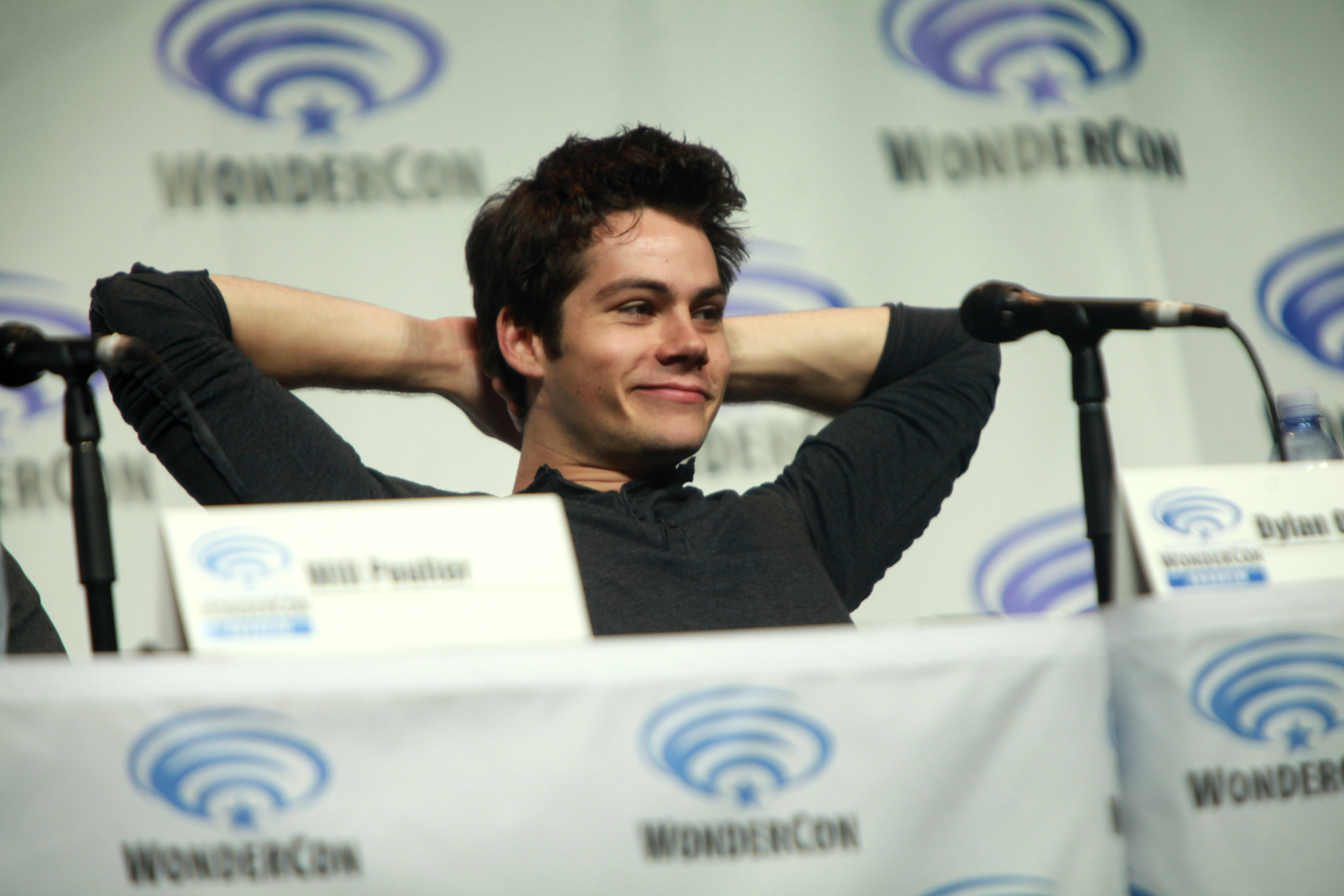 Dylan O'Brien speaking at the 2014 WonderCon, for "The Maze Runner", at the Anaheim Convention Center in Anaheim, California.